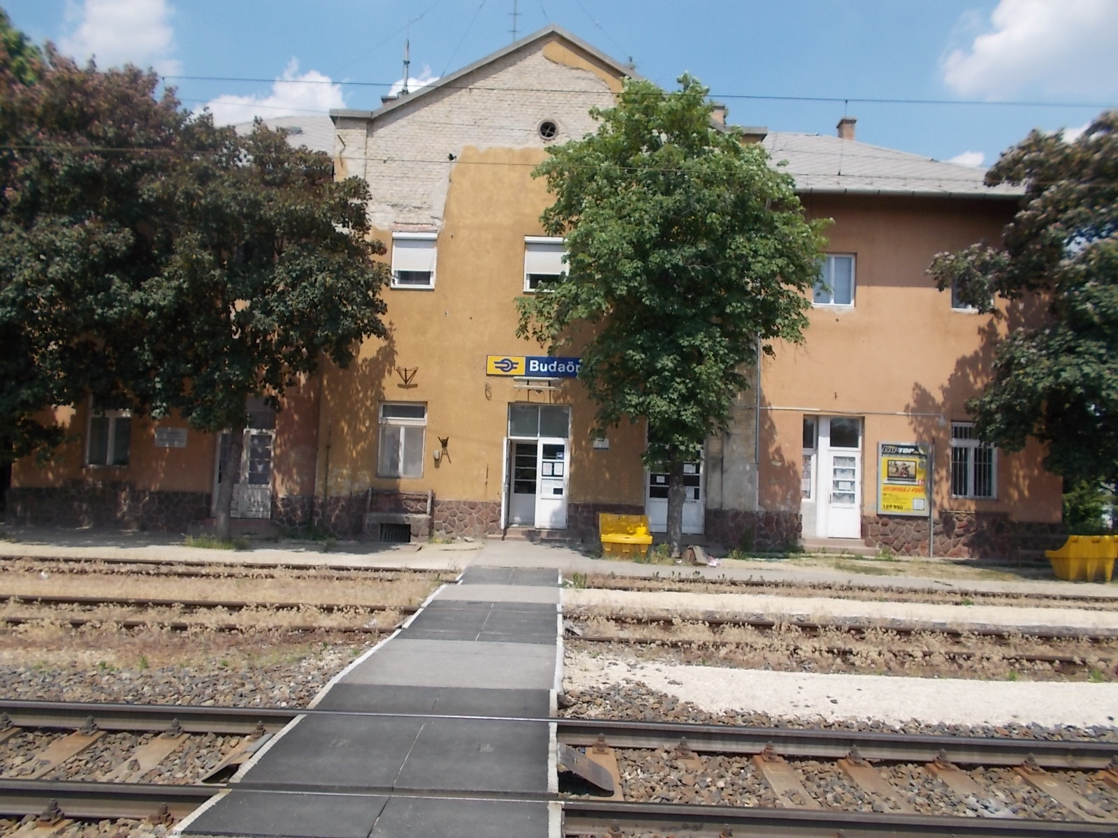 Budaörs railway station. - Raktár Street, Budaörs, Pest County.